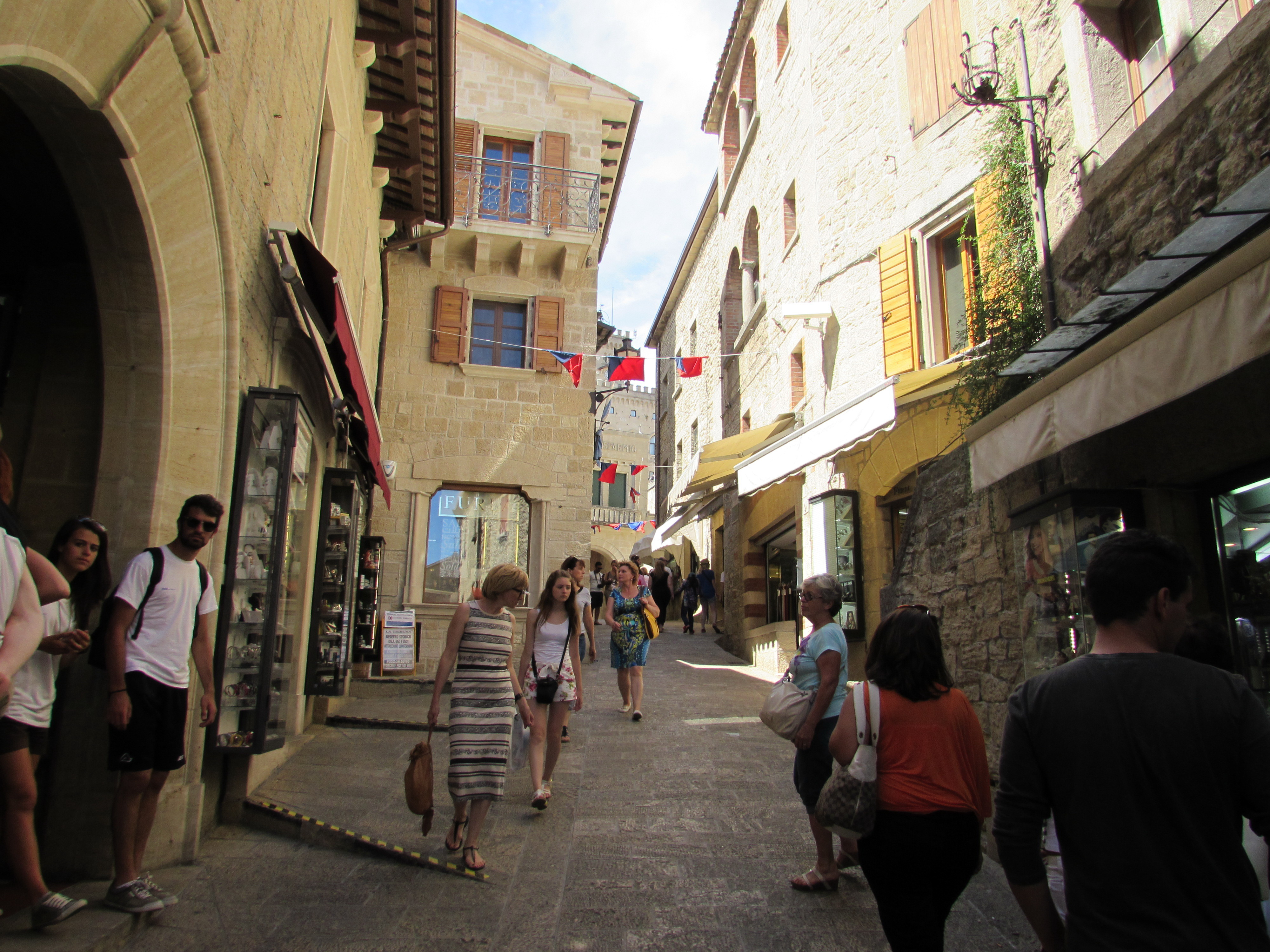 Street in San Marino